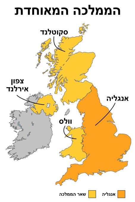 תרשים אנגליה